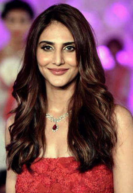 Vaani Kapoor walks the ramp for Payal Jain in 2018